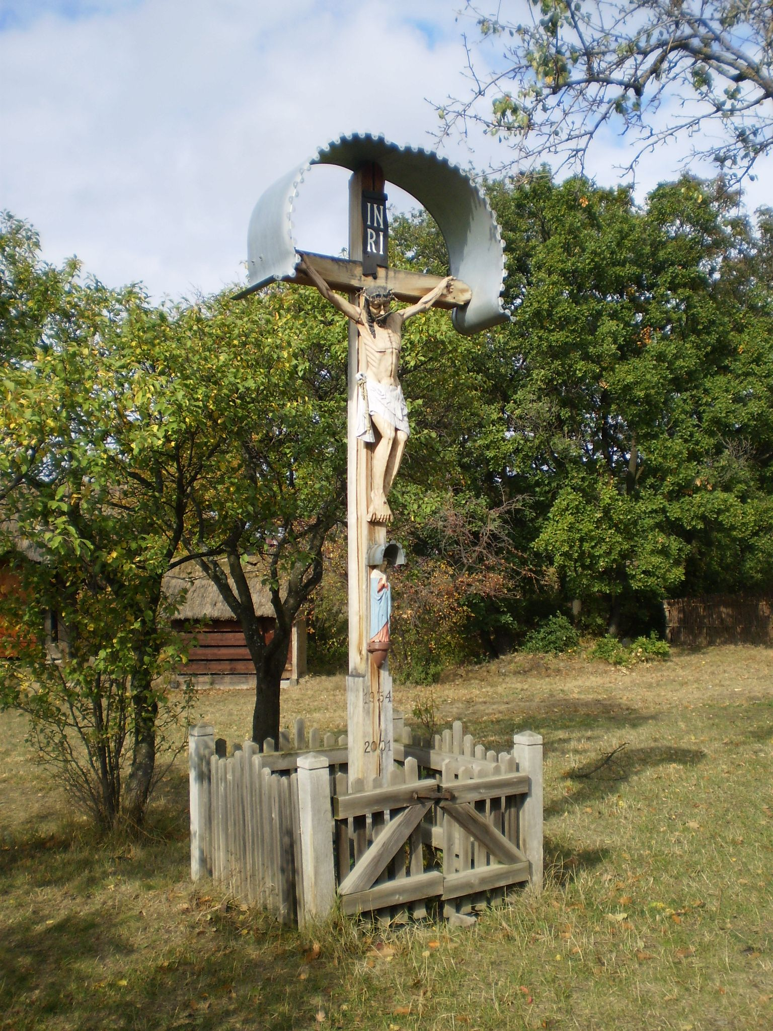 Roadside Crucifix, Lendvadedes, Hungary